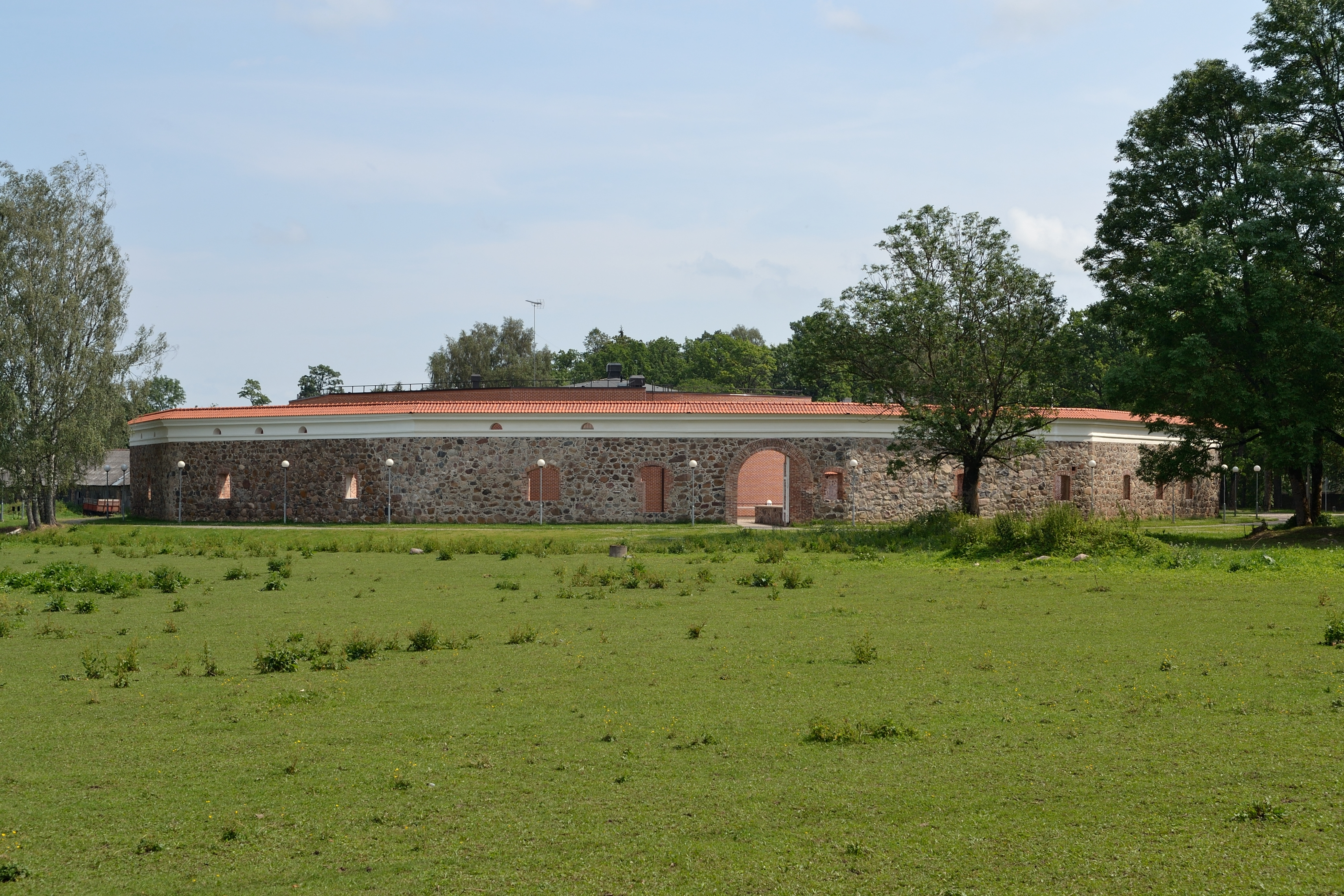 Heimtali manor stable